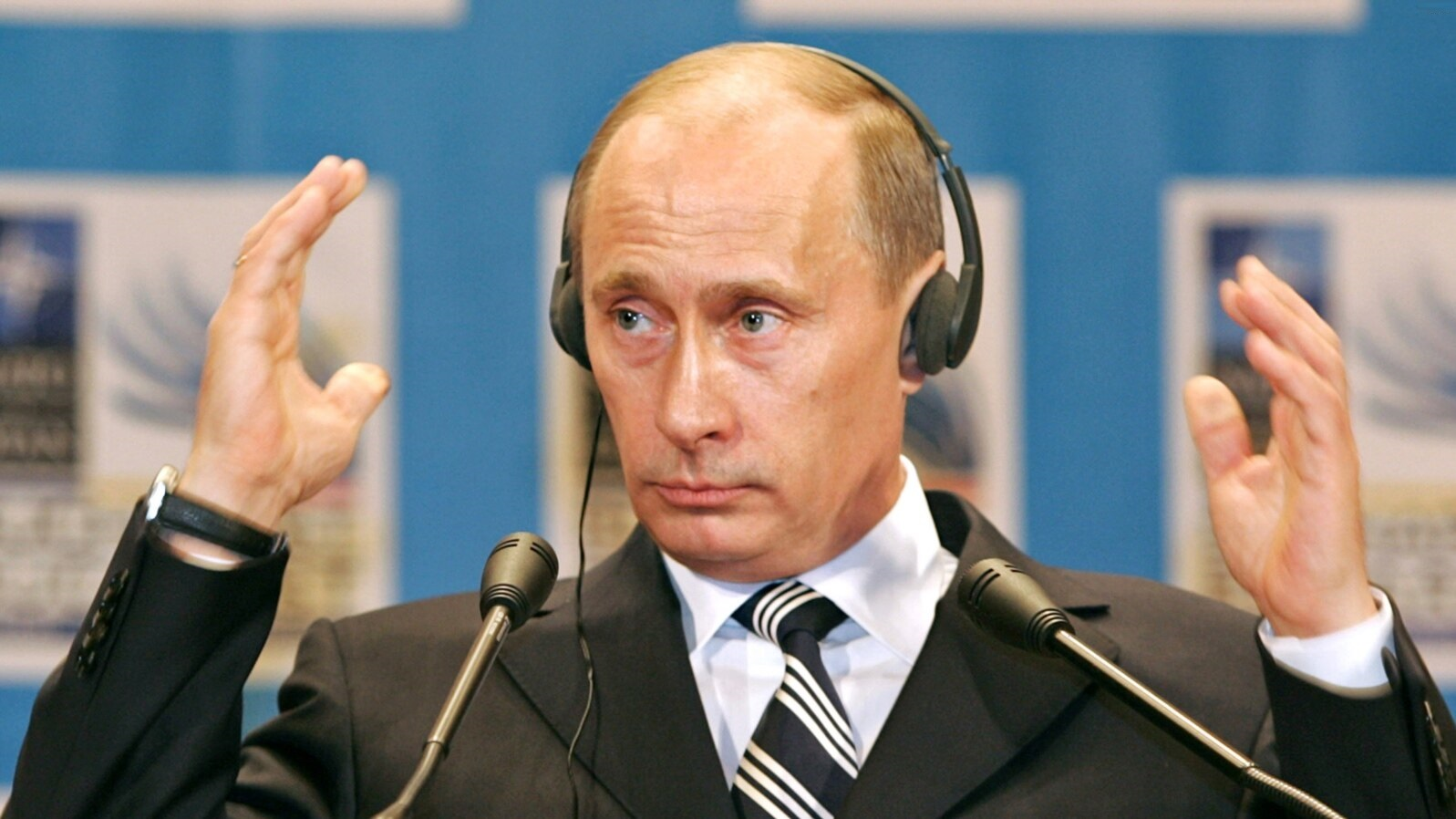 BUCHAREST. At a press-conference following the meeting of the Russia-NATO Council.